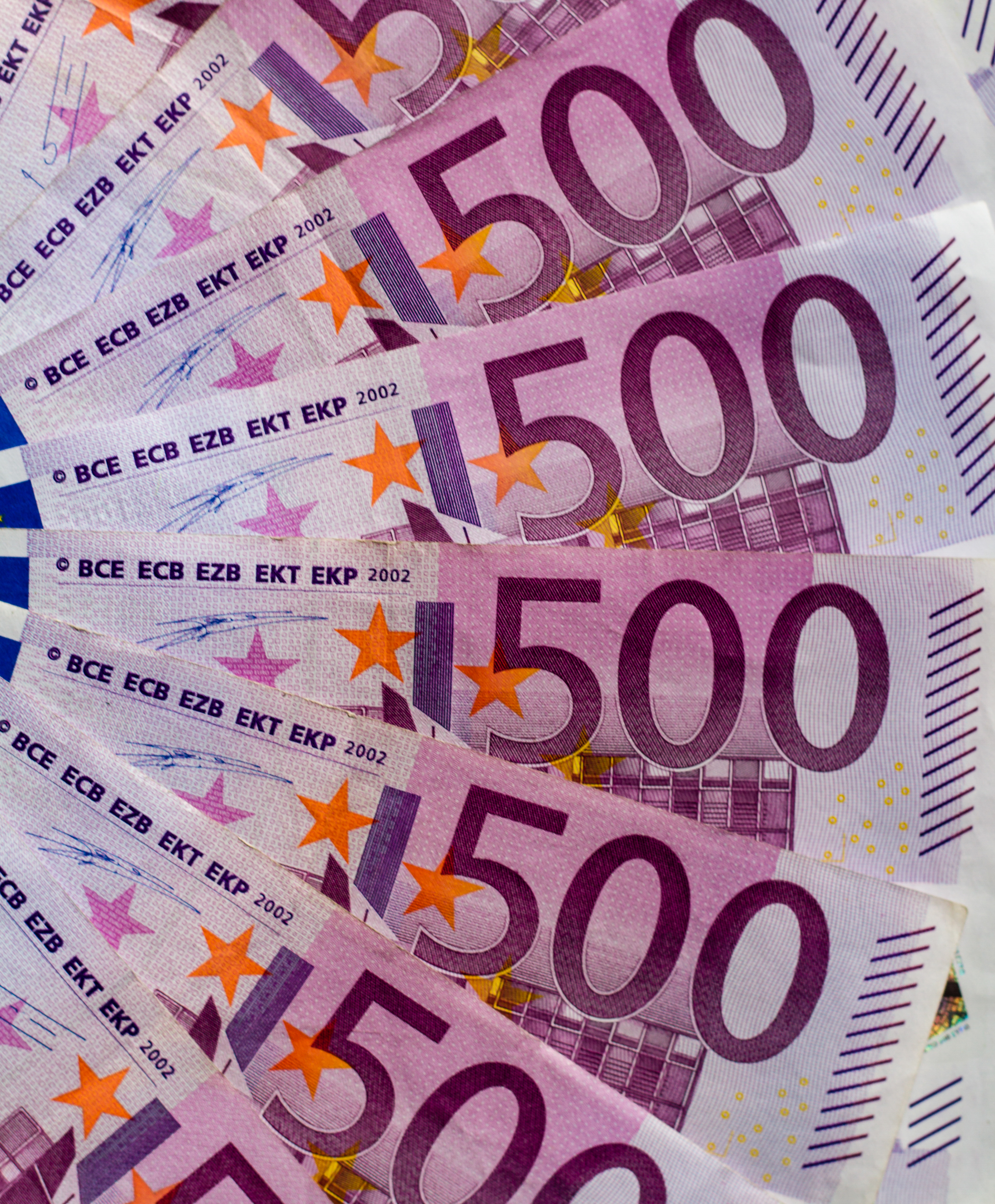 500 euro banknotes (The production was permanently discontinued in May 2016).